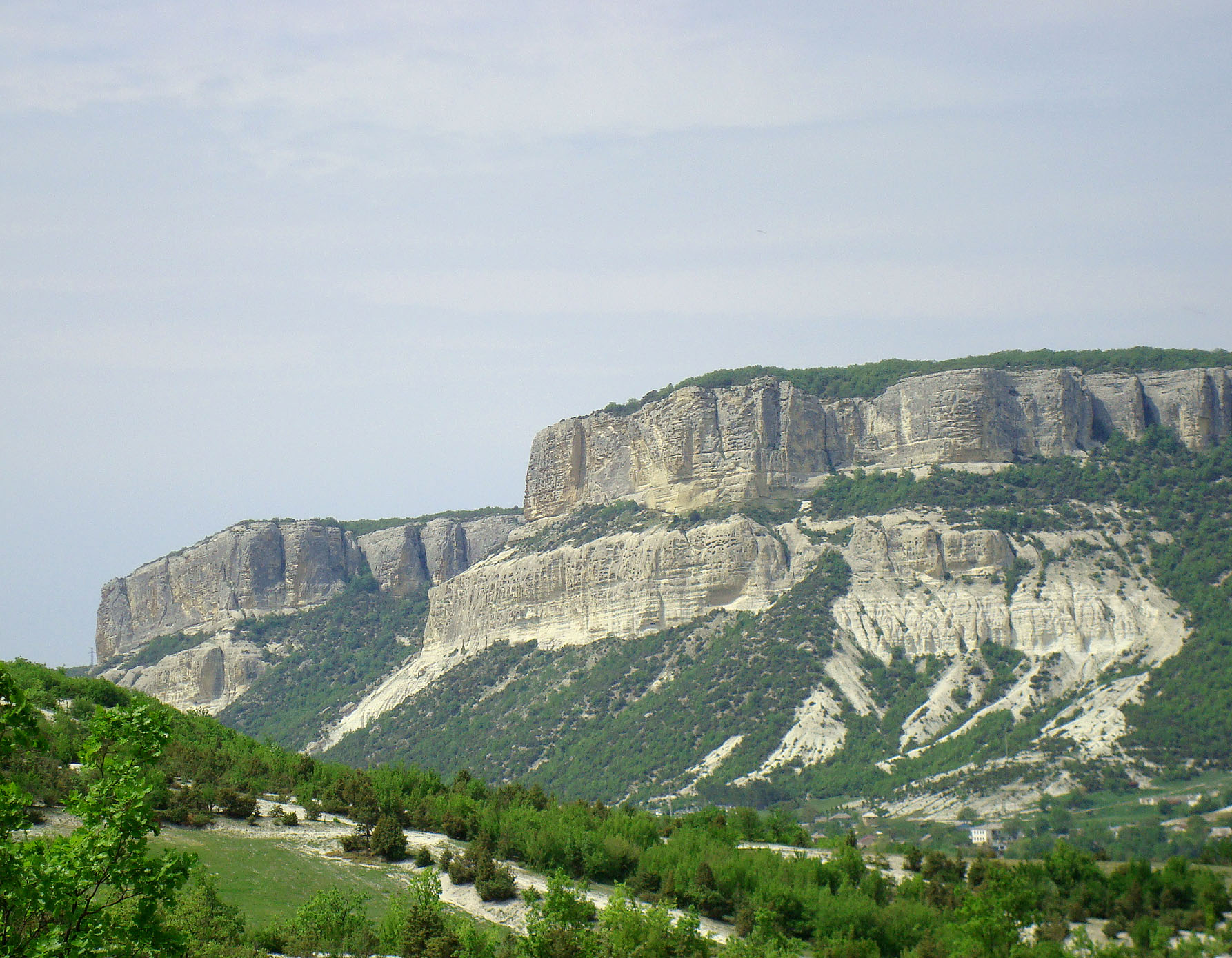 Belbek canyon